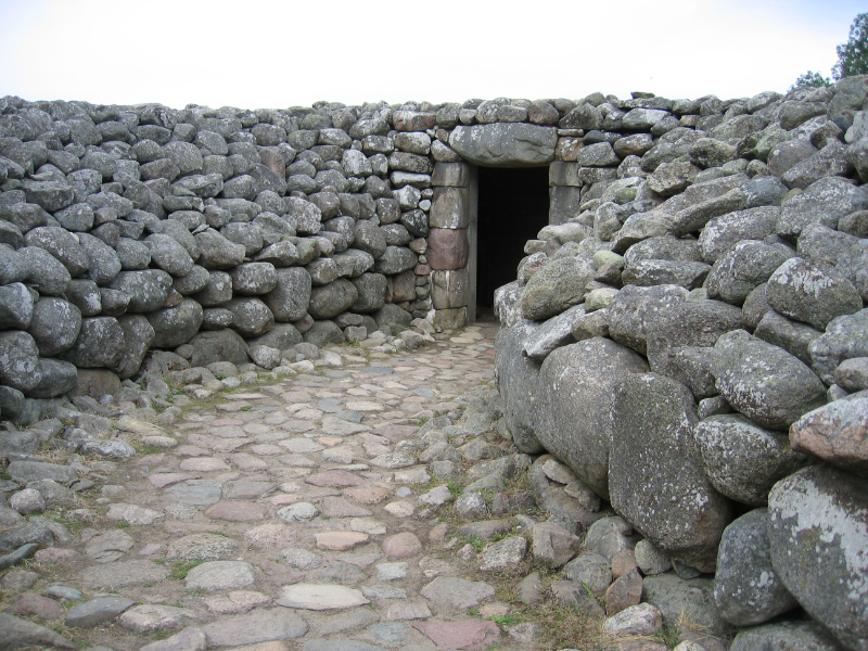 Kungagraven in Kivik, Skåne, Sweden Photo taken by User:Abelson in August 2005